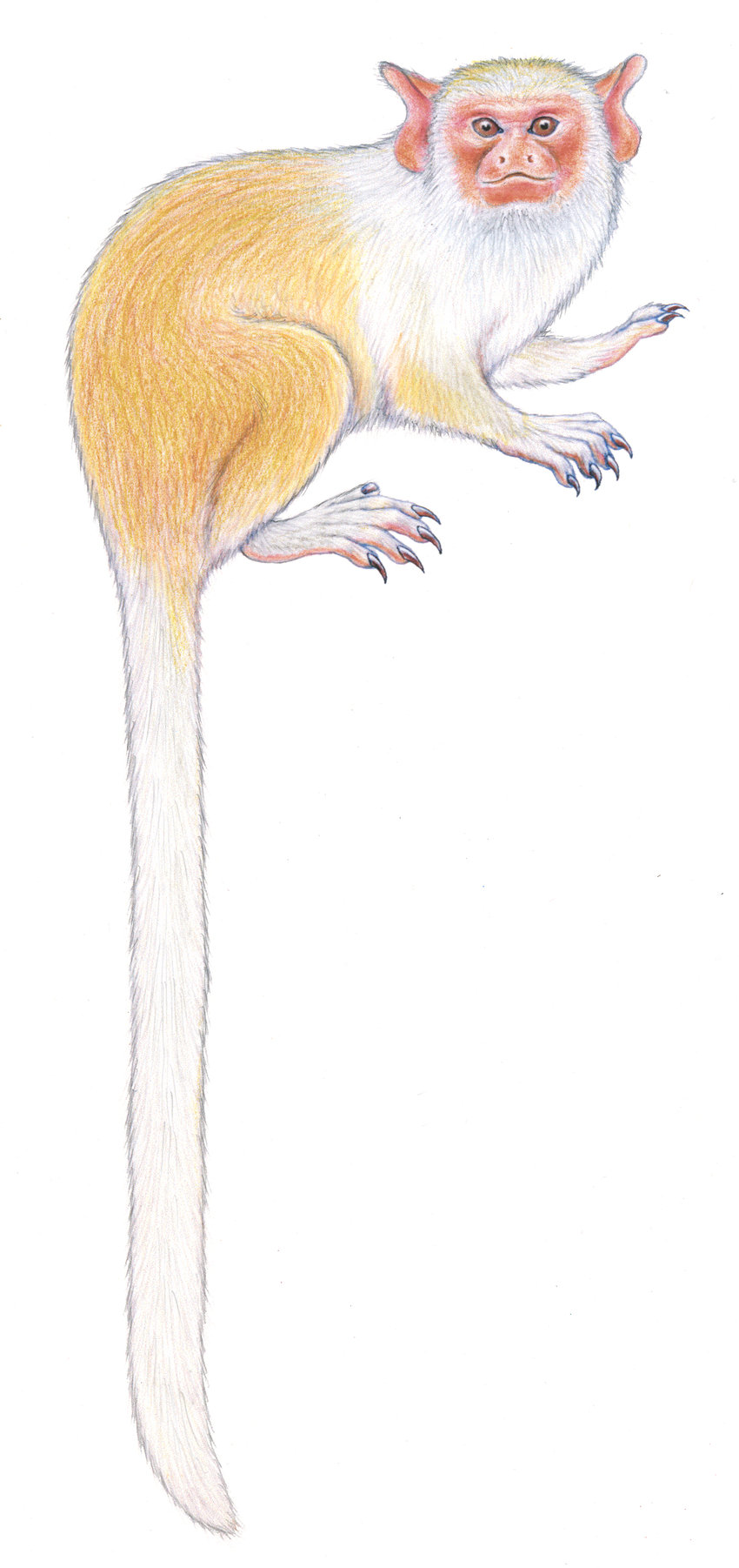 Depiction of the Munduruku marmoset (Mico munduruku).